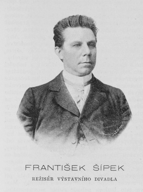 Portrait of František Šípek (1850-1906), Czech actor-comedian and director.